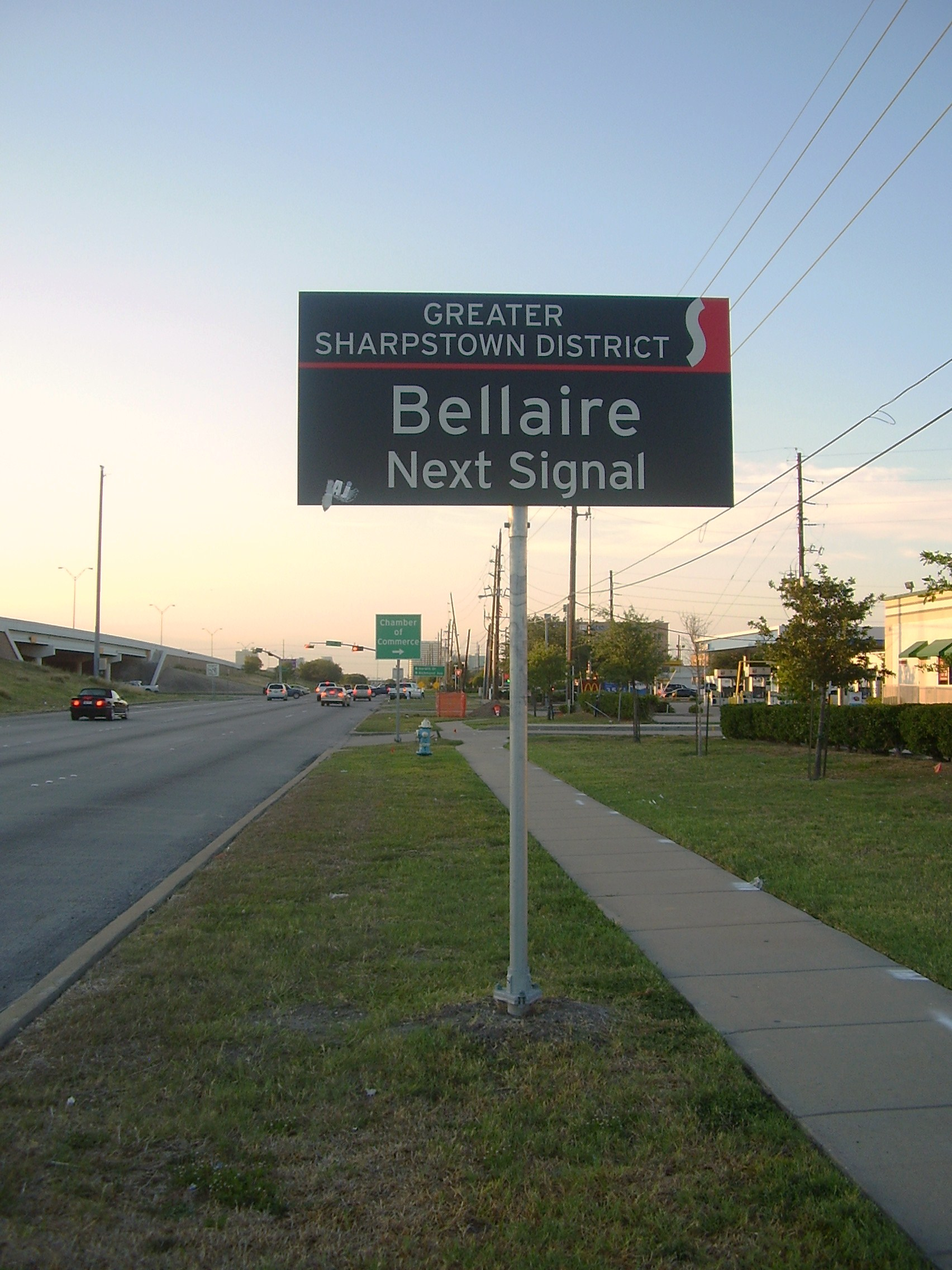 Sign indicating Bellaire Boulevard is ahead